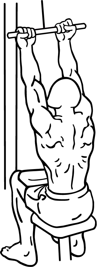 an exercise of upper back